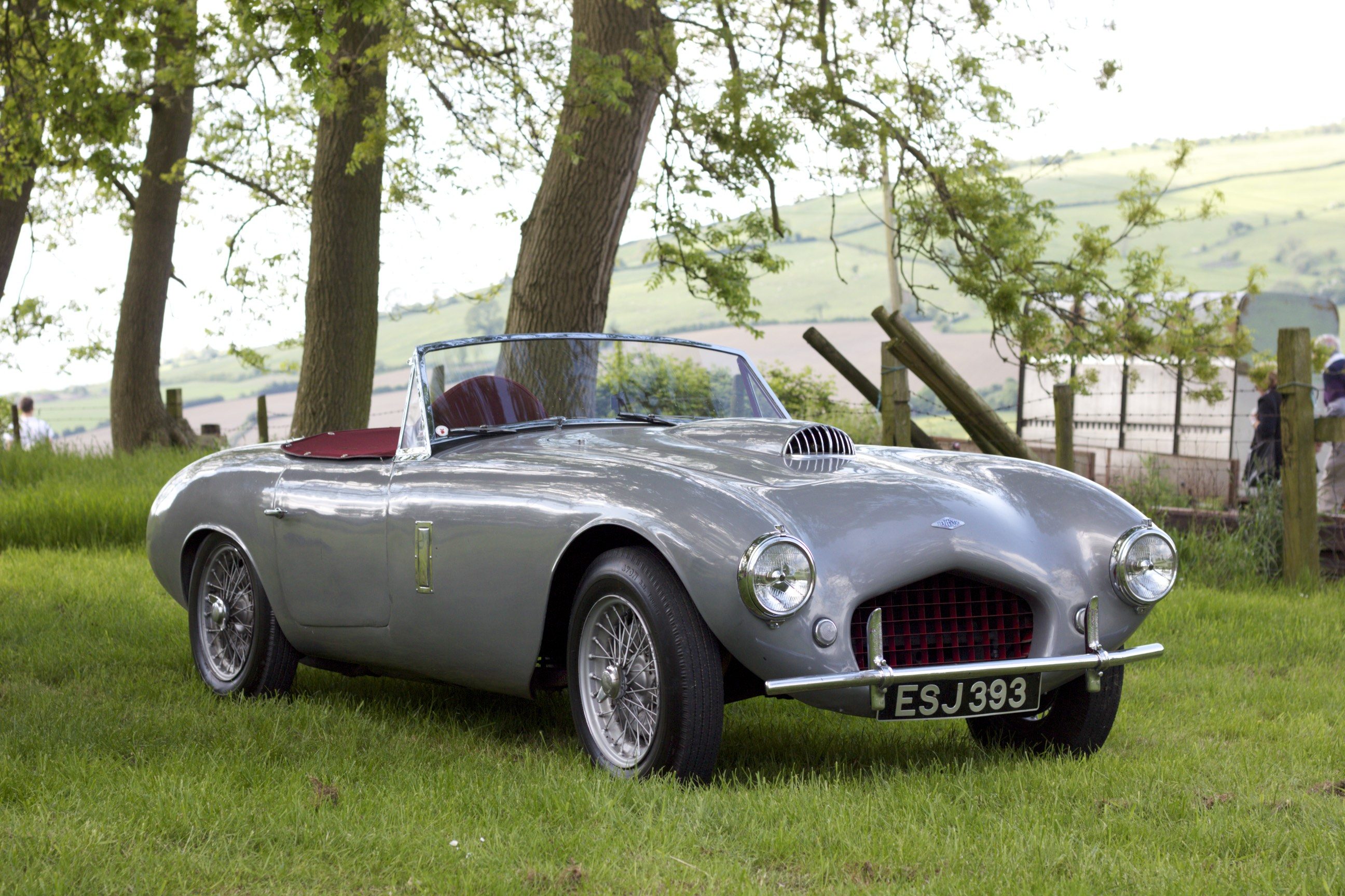 Frazer Nash Targa Florio at Prescott Hillclimb, 2013-06-02